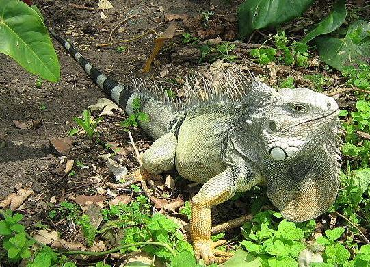 Iguana iguana Photo taken at the Zoo Sta Fe Medellin Colombia